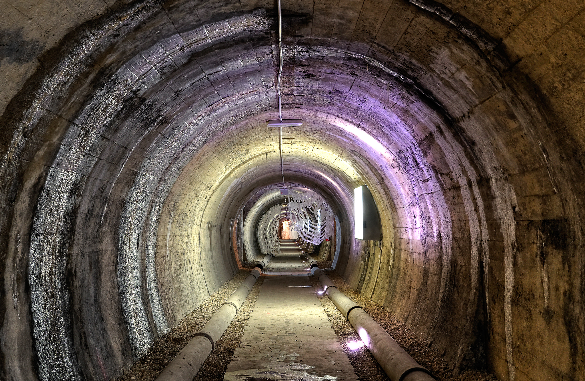 Kranjski rovi